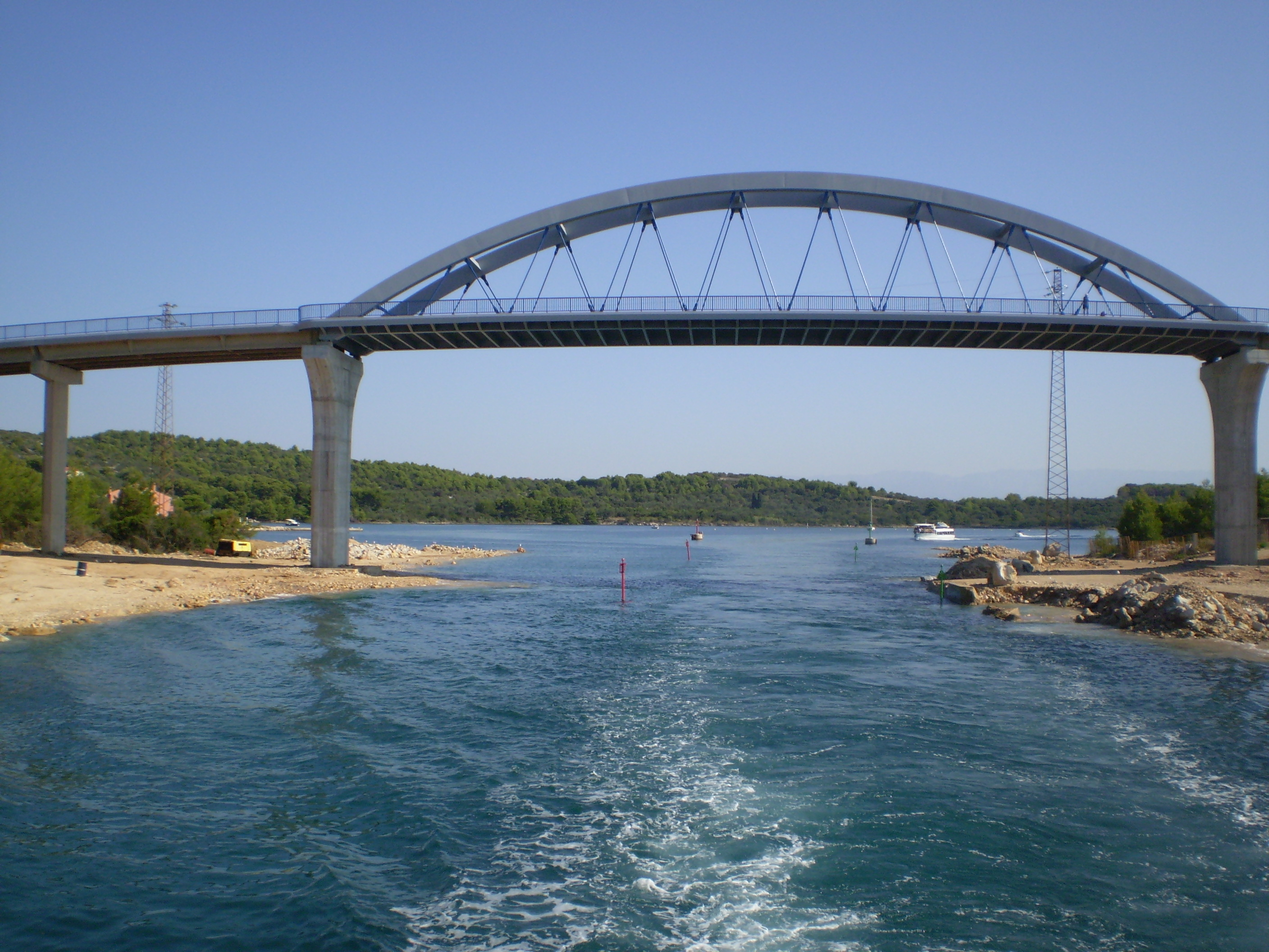 The new bridge across the Strait of Mali Ždrelac.